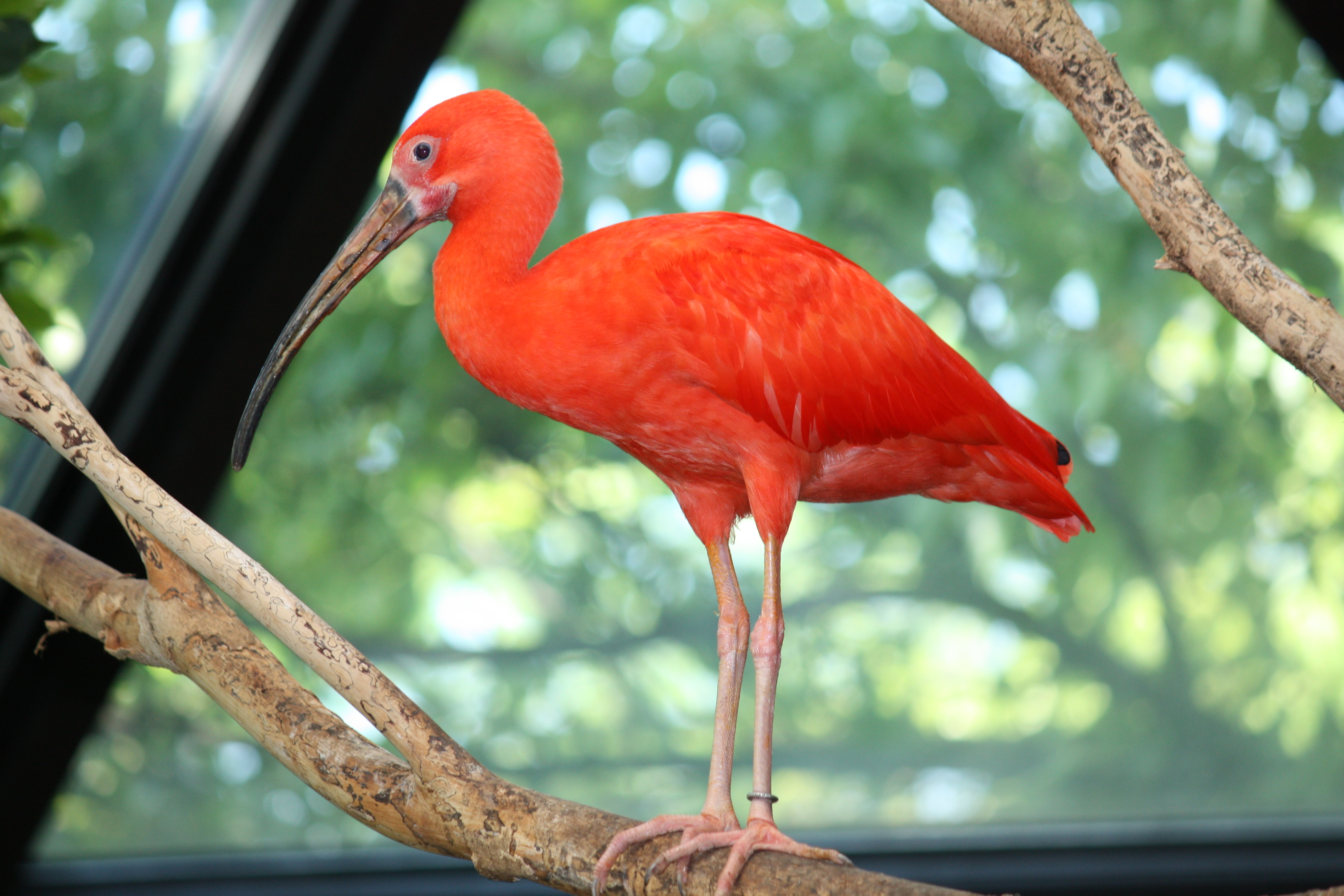 Scarlet Ibis Eudocimus ruber at Cincinnati Zoo